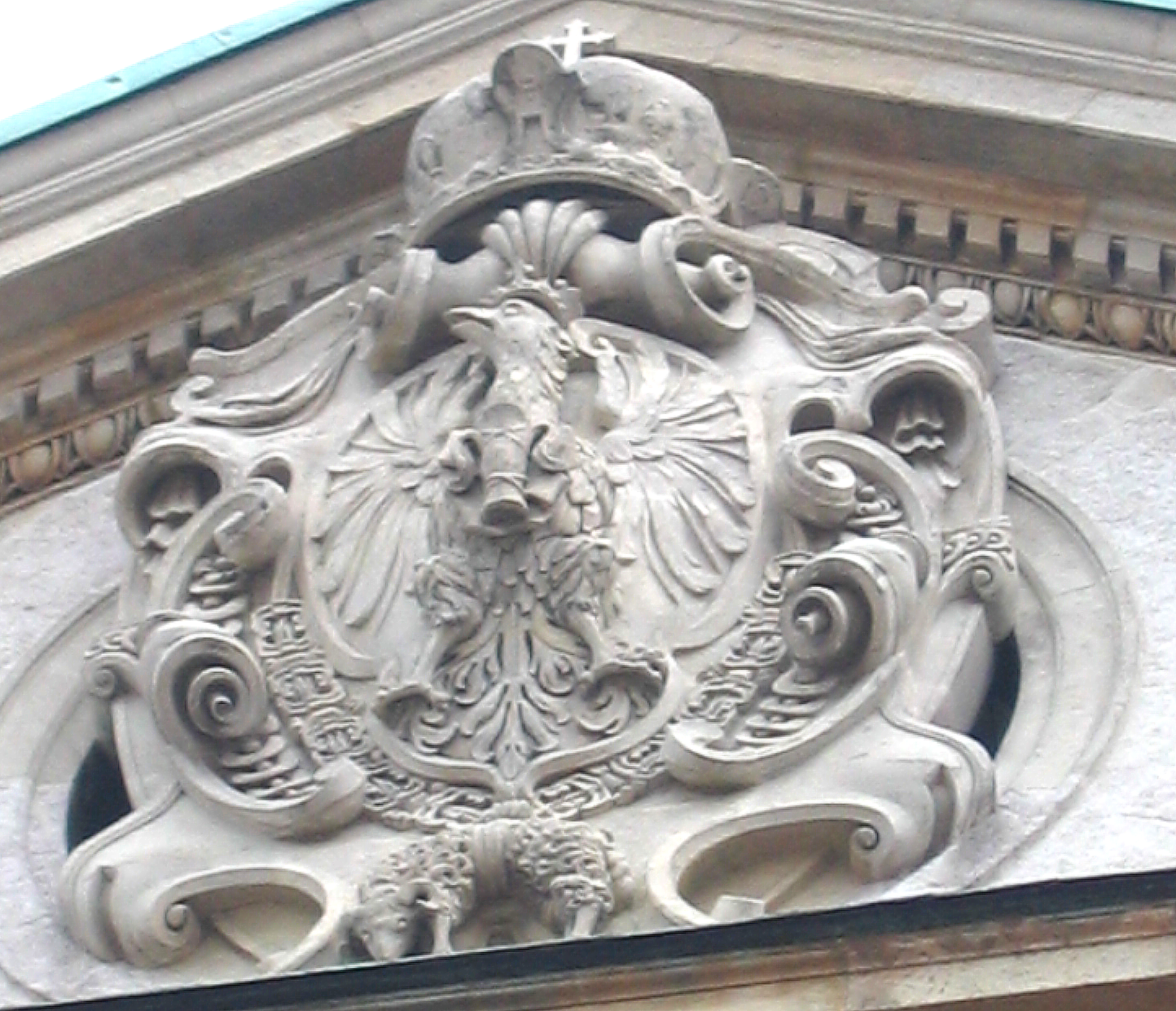 Eagle of Polish Crown with Order of the Golden Fleece of Sigismund III of Poland. Inescutcheon: Vasas' garb.